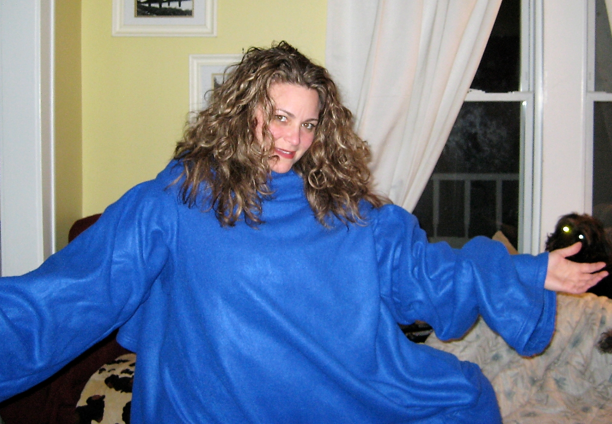 A woman models her Snuggie.